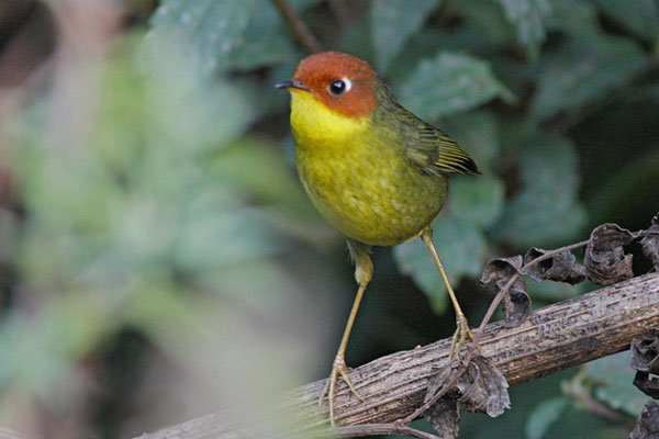 Chestnut-Headed Tesia (Tesia castaneocoronata, or Oligura castaneocoronata) Eaglenest WLS, Arunachal Pradesh, India